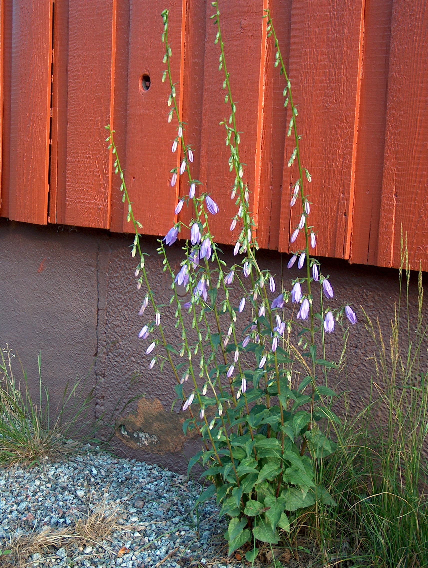 Campanula rapunculoides or Creeping Bellflower - Kerava, Finland